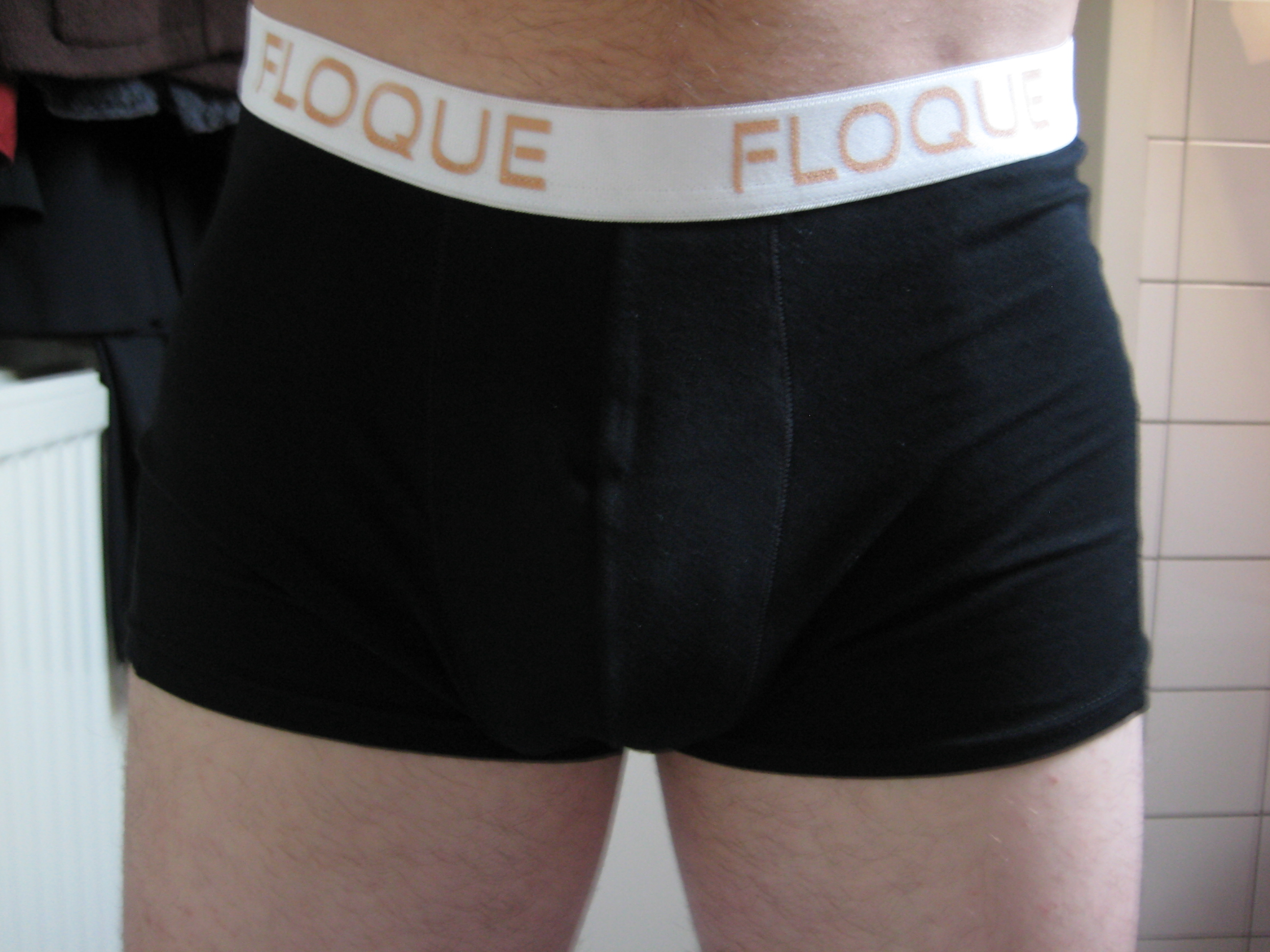 A pair of black Floque boxer briefs.